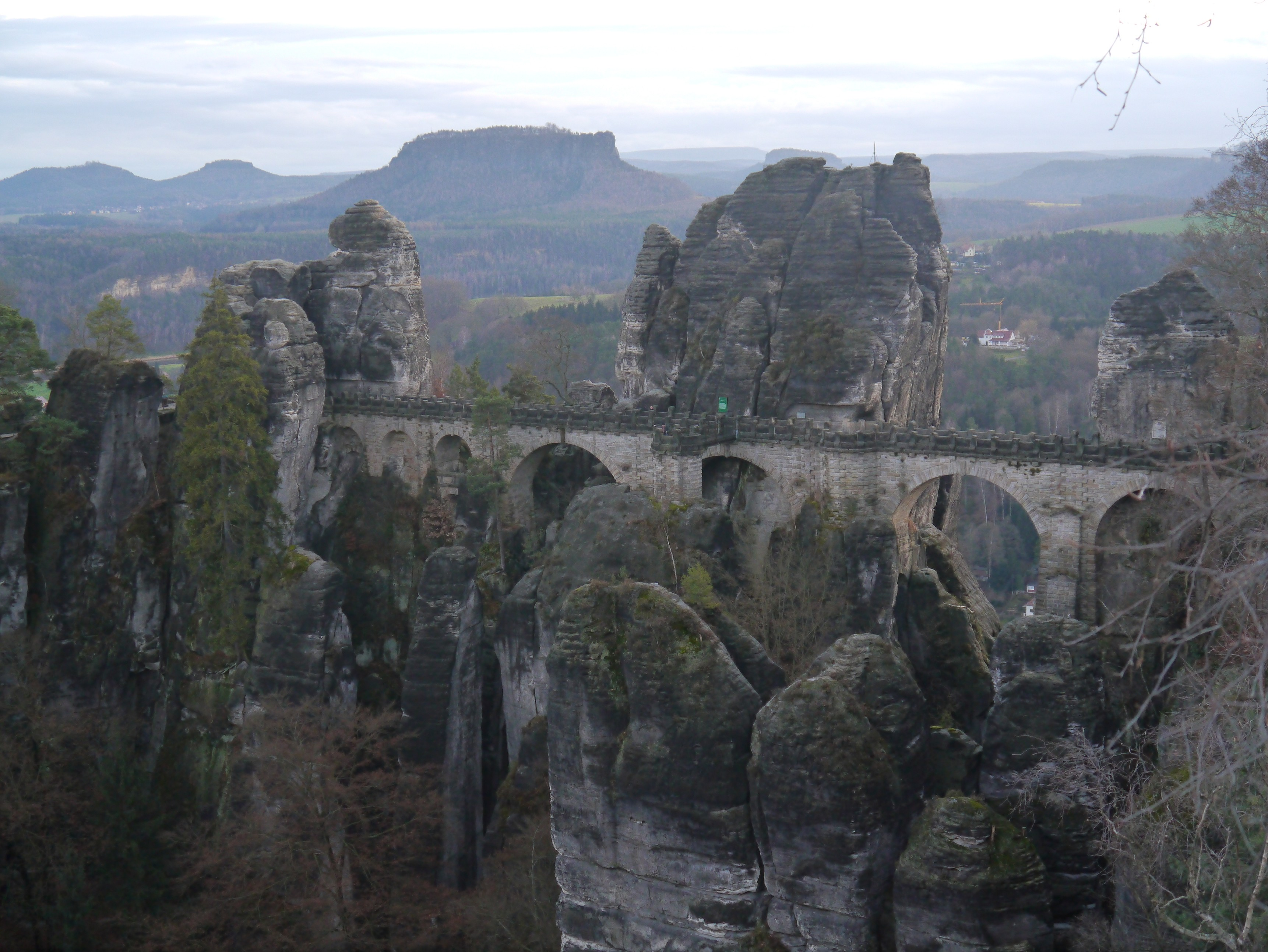 Bastei Bridge, Rathen